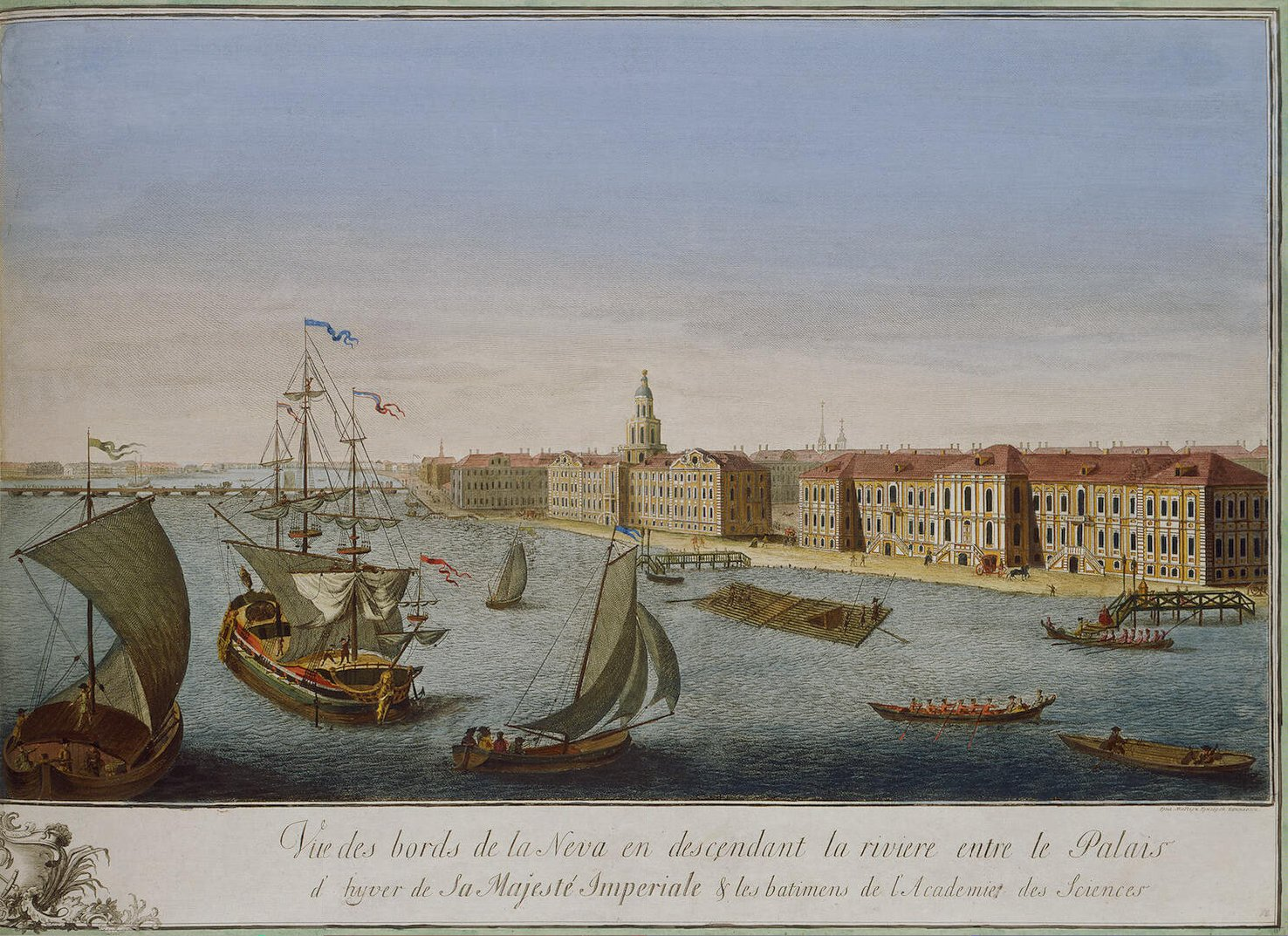 «View of the Neva Downstream between the Winter Palace and the Academy of Sciences». Right part. Etching with line engraving and watercolour, 51.5x69.5 cm. State Hermitage.